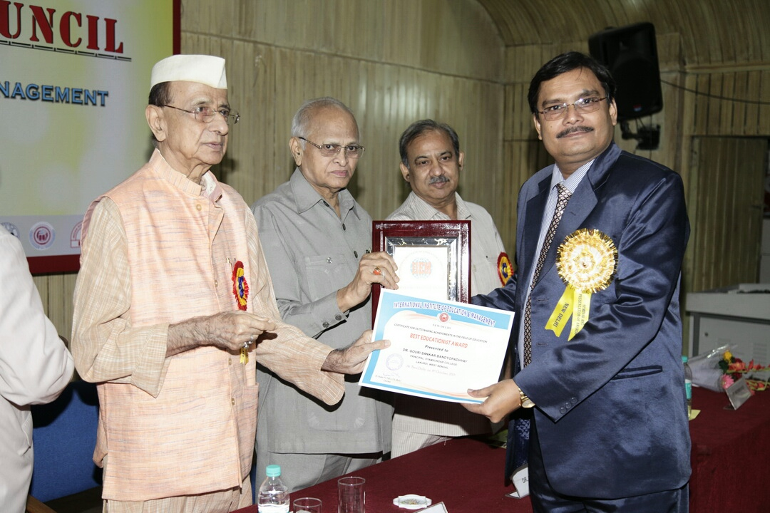 Dr. Gouri Sankar Bandyopadhyay, Principal, Syamsundar College, receiving the Best Educationist Award 2015 at International Institute of Education and Managment, New Delhi